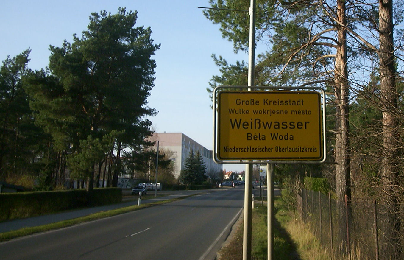 Bilingual, German-Sorbian place-name sign of the city Weißwasser in Saxony, Germany. It contains 86 letters (without spaces).